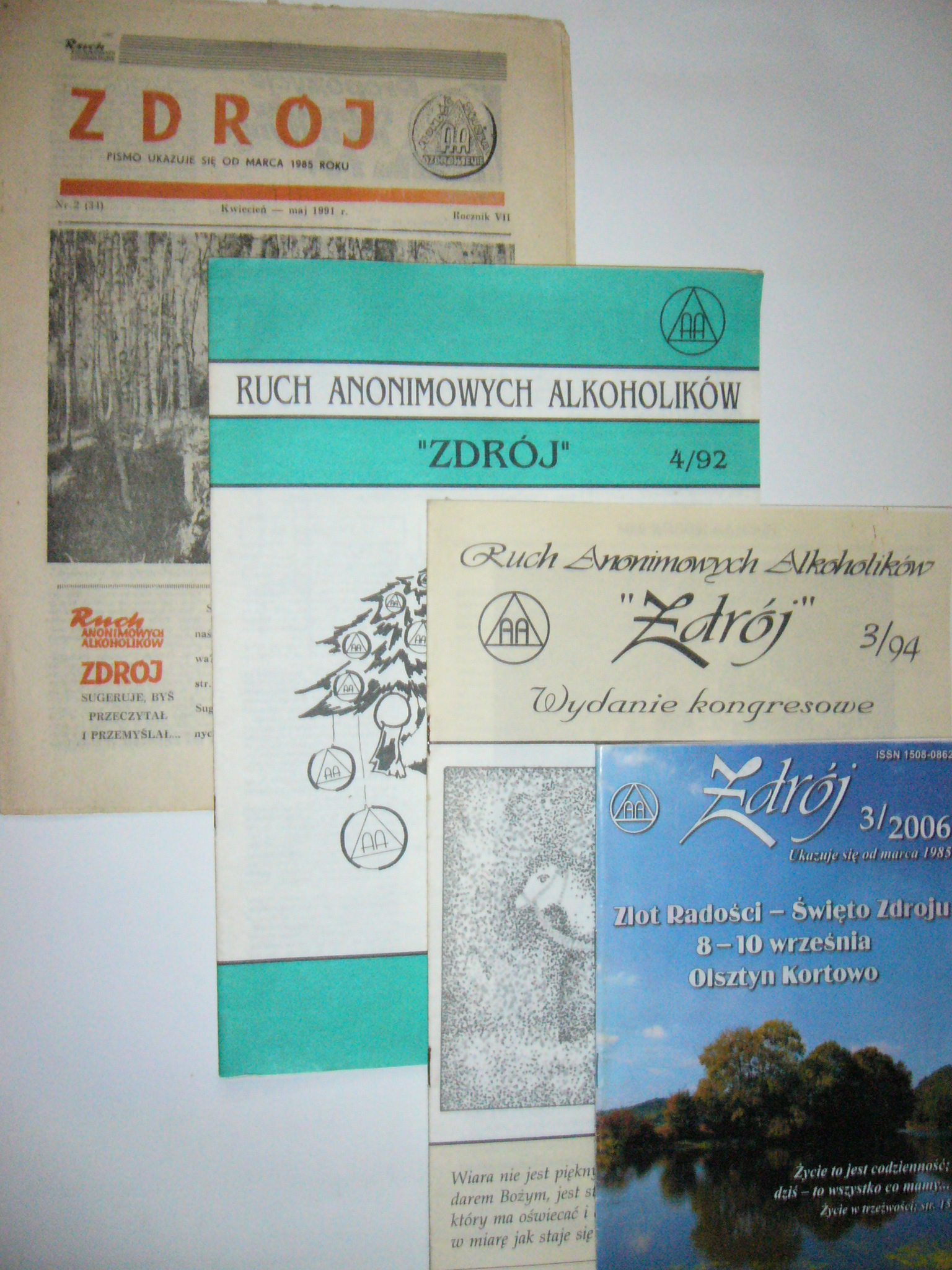 bimonthly of Alcoholics Anonymous in Poland